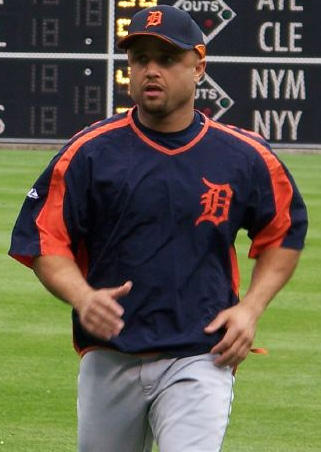 Description Cropped version of File:Plácido Polanco.jpg DateJune 15, 2007Source by Killervogel5 17:44, 19 March 2009 . . Killervogel5 . . 321×452 (75 KB) Cropped version of File:Plácido Polanco.jpg